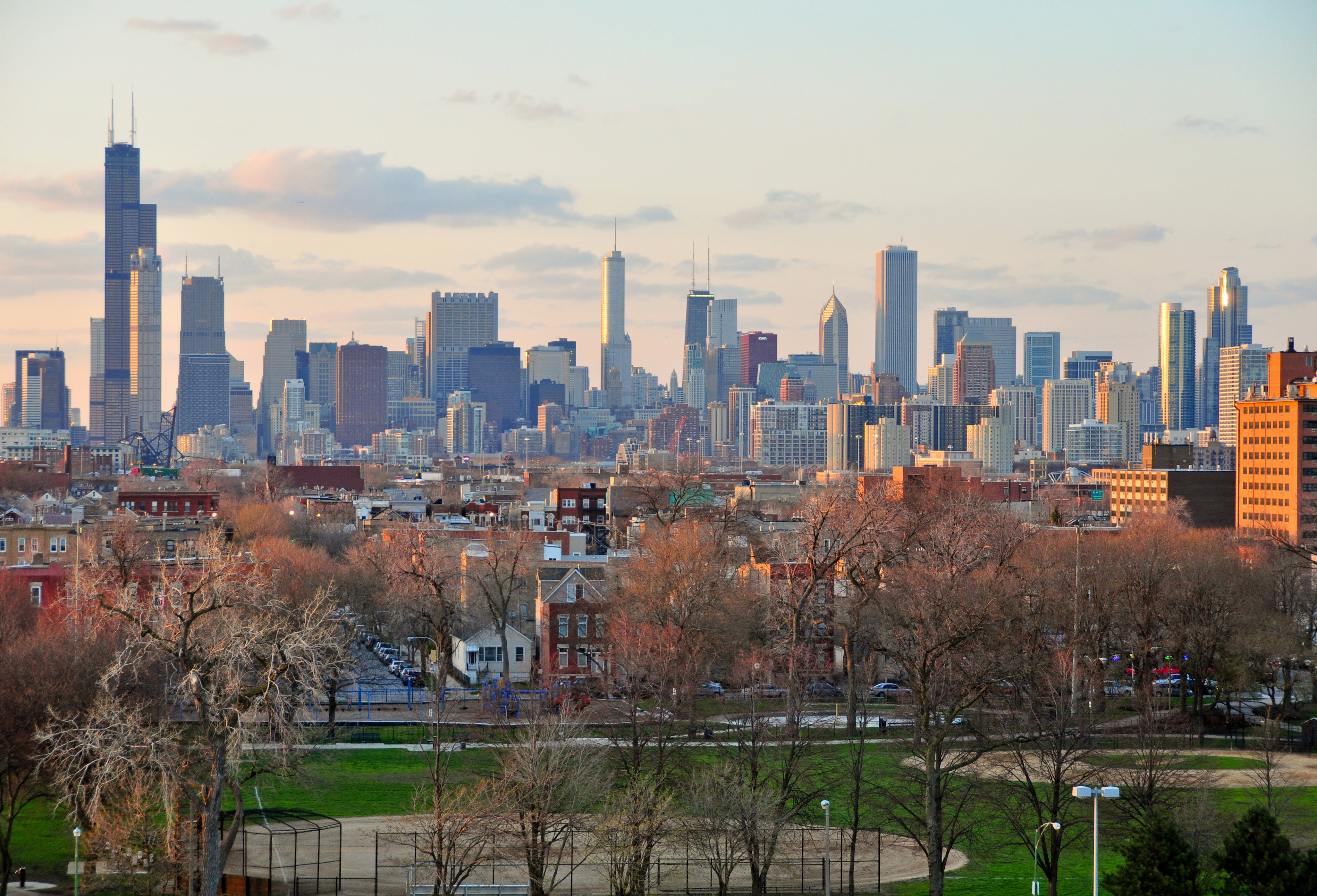 Chicago skyline from Cellular Field.